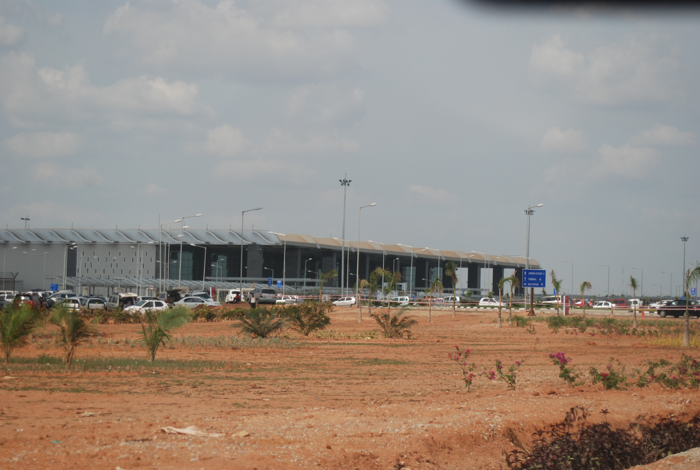 Bangalore Airport terminal building